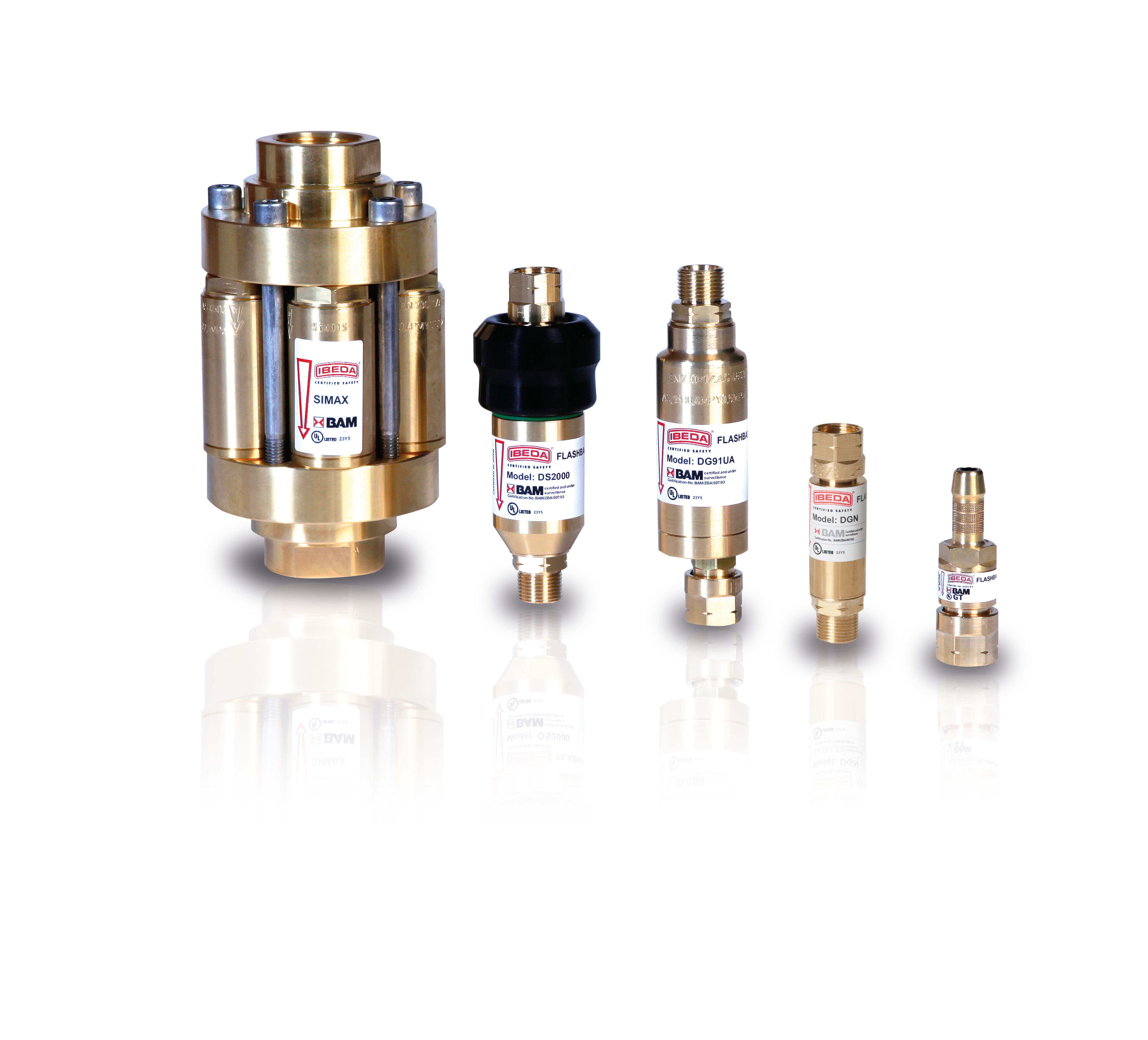 Flashback arrestors with different size, flow rate and different connections. Quality products of a market leader in gas safety equipment.